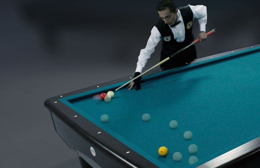 billiard